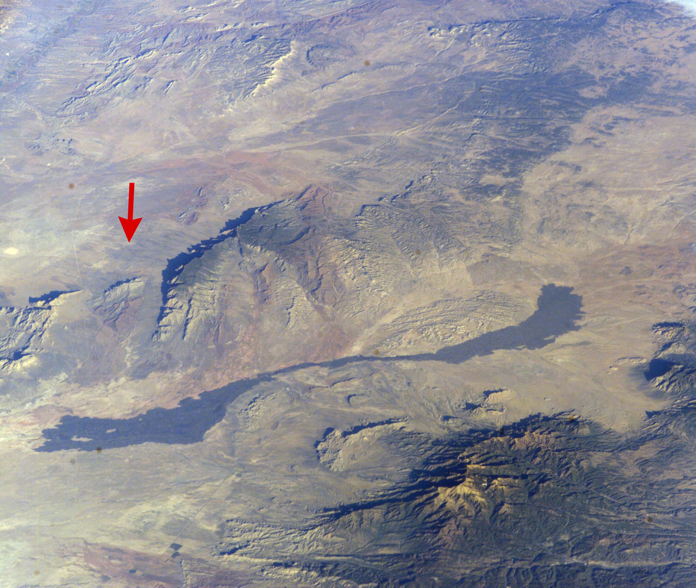 Marked Trinity Site on Astronaut Image ISS008-E-5604 Earth Sciences and Image Analysis, NASA-Johnson Space Center Nasa Astronaut photo Mission-Roll-Image Image ISS008-E-5604. 29 Dec. 2003. "The Gateway to Astronaut Photography of Earth: Find Photos." (14 Jan. 2004). Send questions or comments to the NASA Responsible Official at mailto: Curator: Earth Sciences Web Team Notices: Web Accessibility and Policy Notices Last Update: 29 Dec. 2003